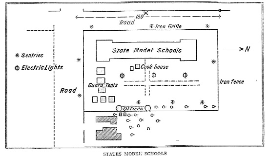 Book illustration. The State Model School in Pretoria served as a prisoner of war camp during the Second Boer War. It was here that Winston Churchill was held, and from where he escaped. Note that North is to the right. The Apies rivulet is about 500 m to the East. The entrance to the building was in Van der Walt Street (at top/West, Lilian Ngoyi today) while Skinner Street (Nana Sita today) ran along the southern side.